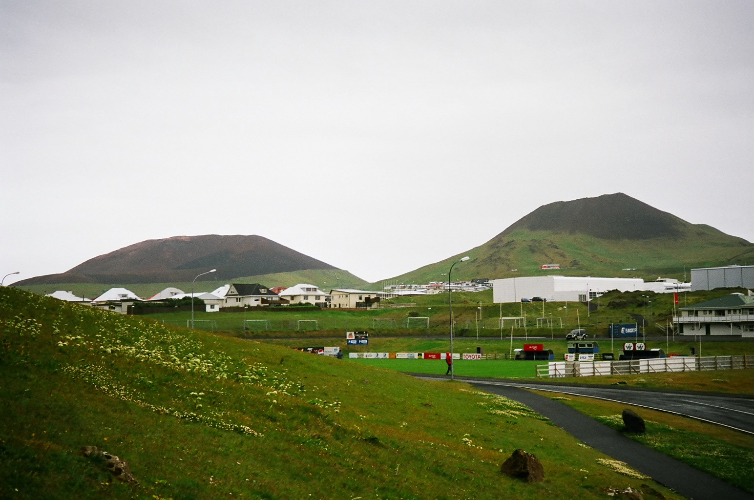 View of Heimaey city in Iceland. The picture is taken from the city's western border, close from the camping and golf field. On the forefront the football field is partly visible, then the city is filling almost the whole northern plain of the small island. The backdrop is formed by the dramatic slopes of volcanoes Helgafell (right) and dark red Eldfell (left), whose 1973 eruption destroyed part of the city.